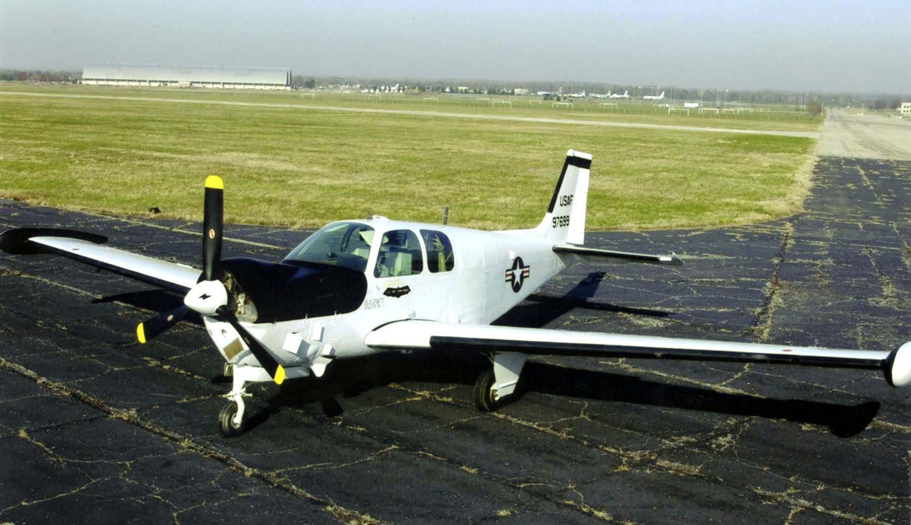 DAYTON, Ohio -- Beech QU-22B at the National Museum of the United States Air Force.